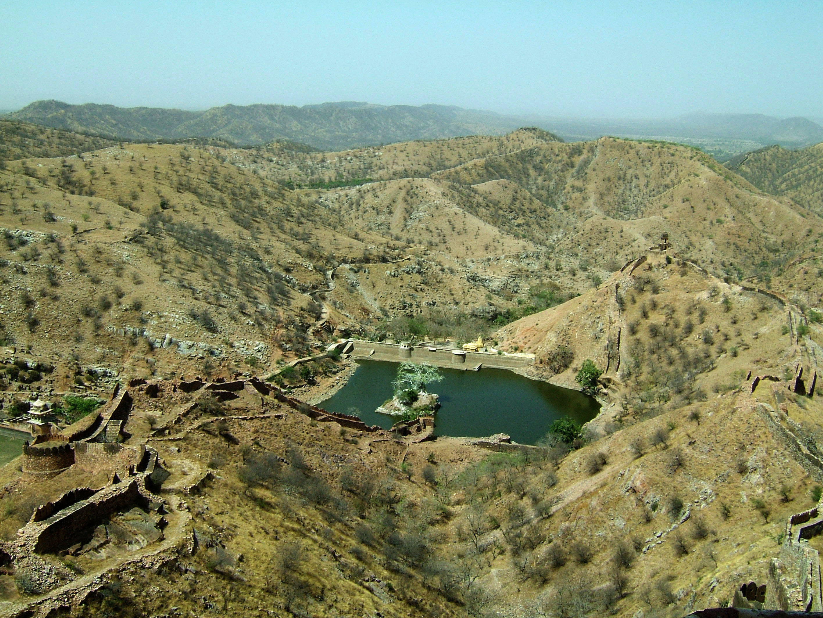 Jaigarh Fort, Jaipur, Rajasthan